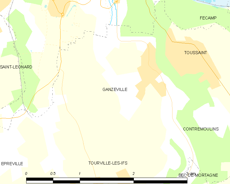 Map of French municipality Ganzeville